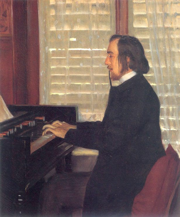 Portrait of Eric Satie at the harmonium